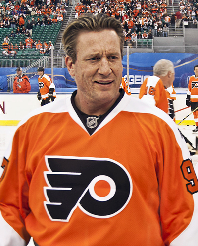 Jeremy Roenick during the warmup at Citizens Bank Park in Philadelphia prior to the 2012 NHL Winter Classic Alumni Game between the retired players of the Philadelphia Flyers and New York Rangers, December 31, 2011.